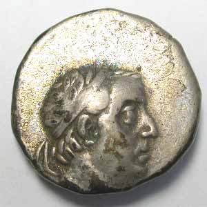 King of Cappadocia Ariobarzanes I. Kingdom of Cappadocia, Ariobarzanes I AR Drachm. 95-63 BC. Diademed head right / BASILEWS APIOBAPZANOY FILORWMAIOY, Athena standing left holding Nike, spear & sheild resting on ground to right, GA monogram to left.